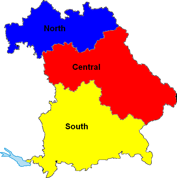 Map of the Bavarian football Landesligas within their boundries from 1963 to 2012.